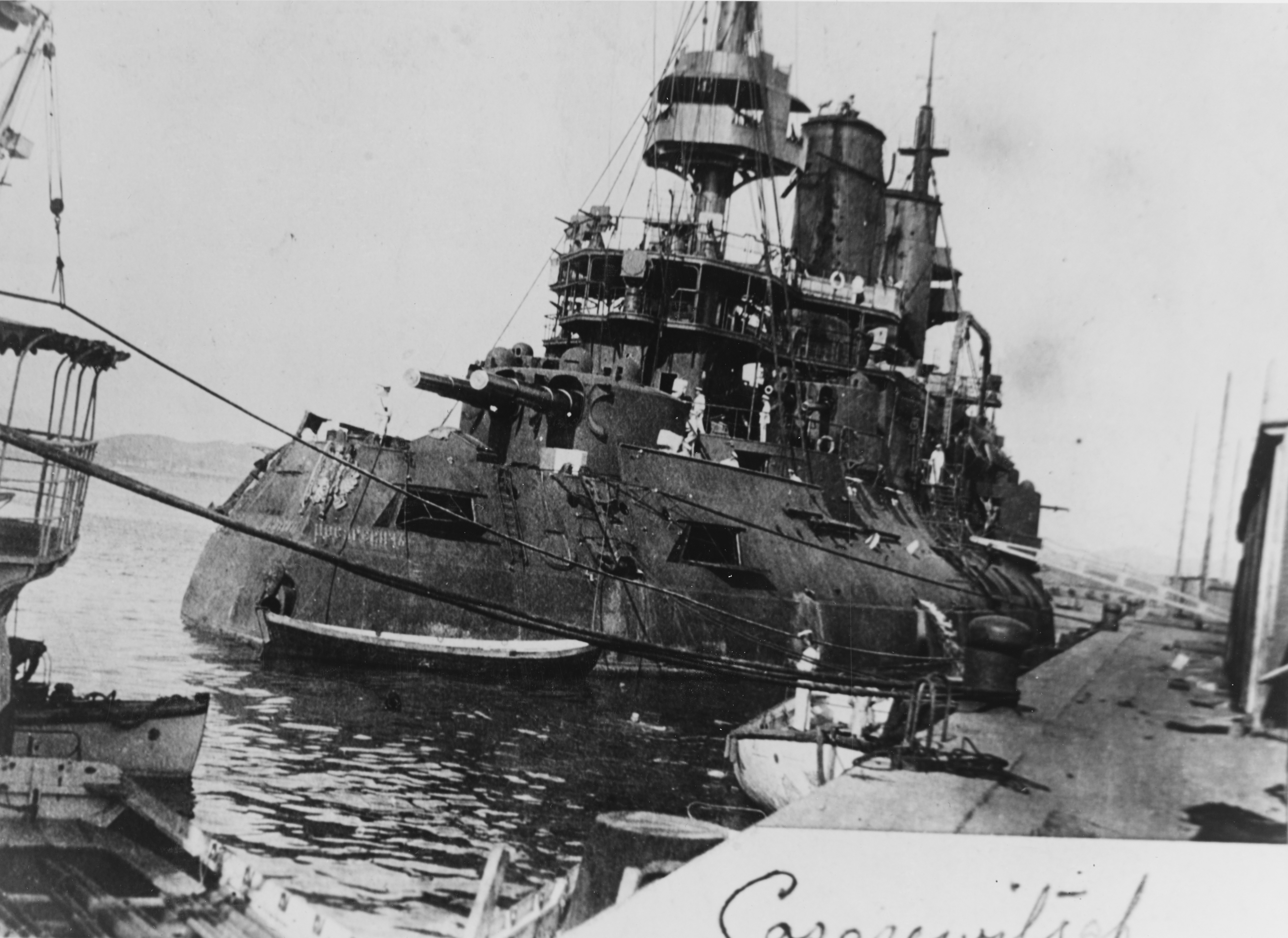 Rear dockside view of the Russian battleship Tsesarevich